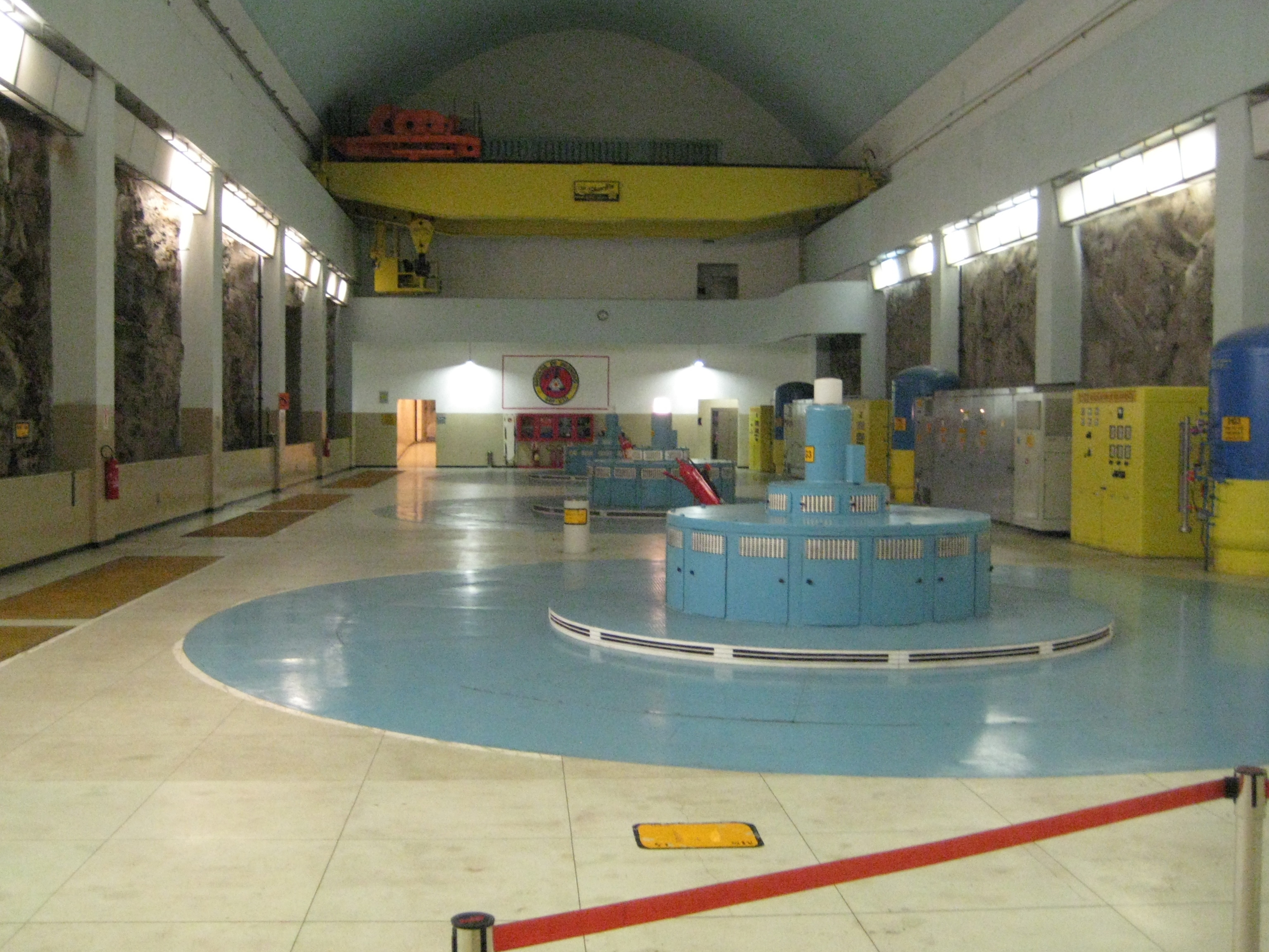 Turbine hall of the hydroelectric power plant "PA I" in Paulo Afonso, Bahia, Brazil.